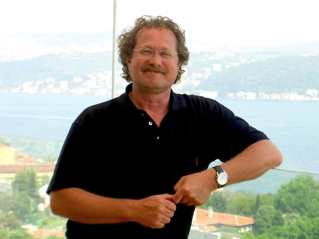 Helmut Diez